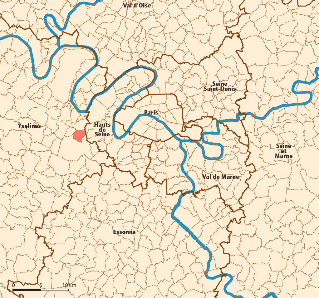 Created map myself.